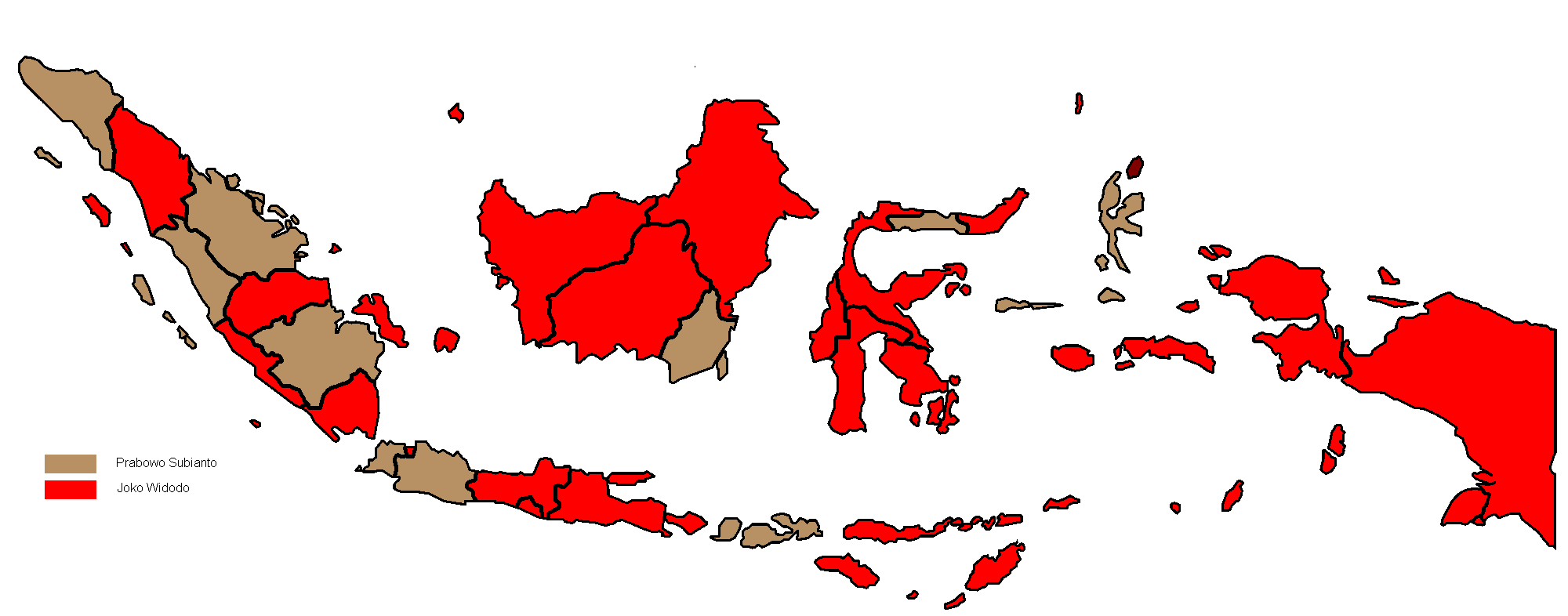 Map of the results of the 2014 Indonesian presidential election